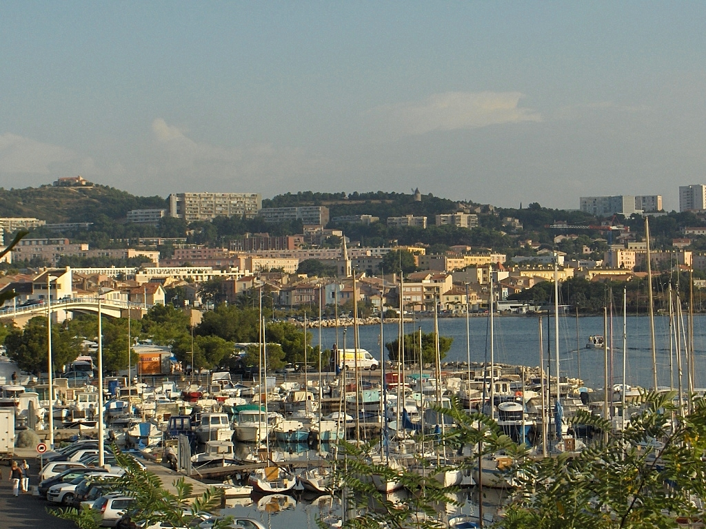 Martigues - Harbour of Jonquières and in the background above on the left, chapel Notre-Dame-des-Marins